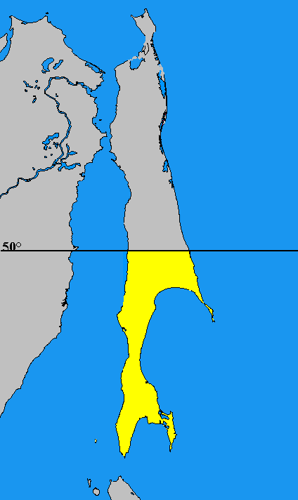 Prefectuur Karufuto,Japan